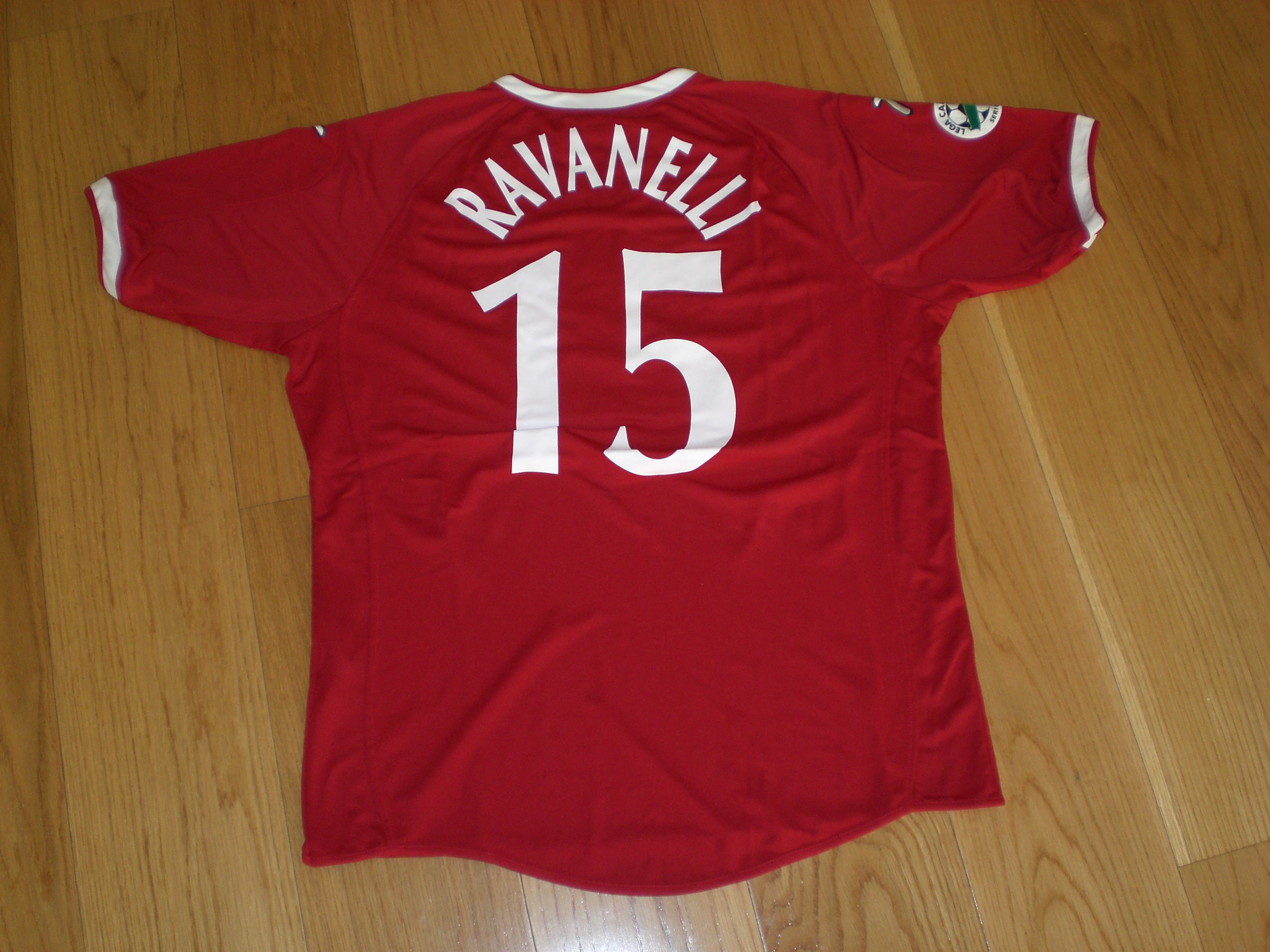 AC Perugia 2004-2005 shirt – Fabrizio Ravanelli, n° 15 (back).